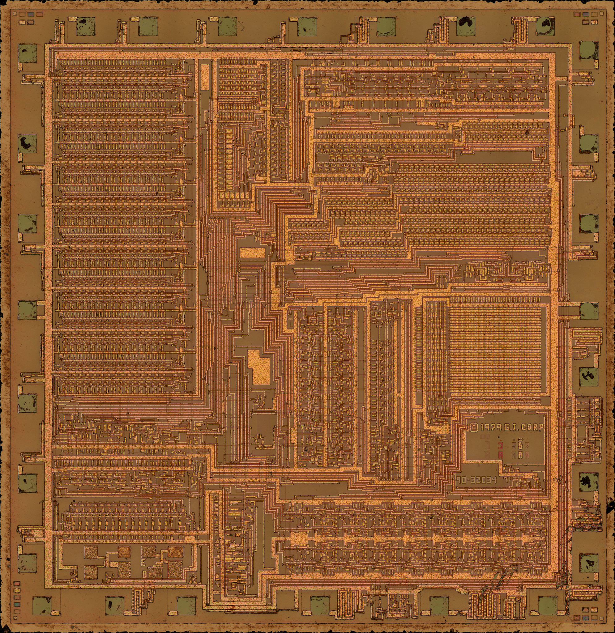 GI SP0250 top metal die shot